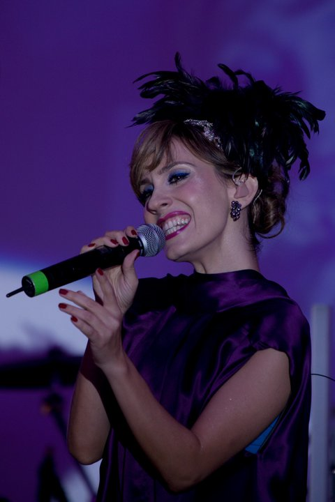 Filippa Giordano performing live